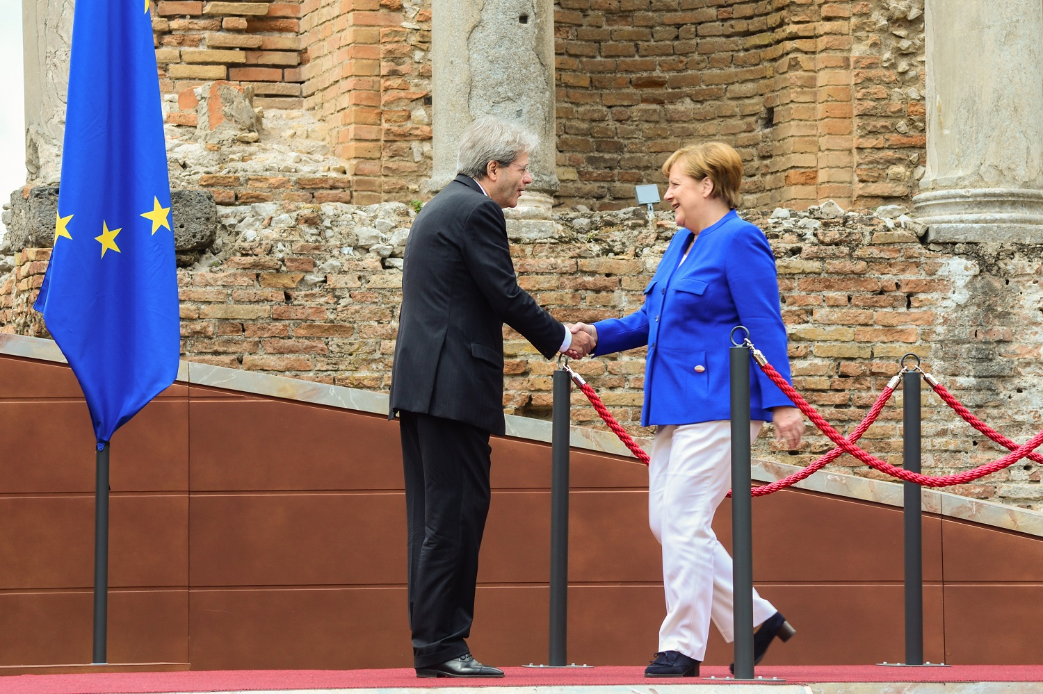 Handshake of Paolo Gentiloni and Angela Merkel during the 43rd G7 summit